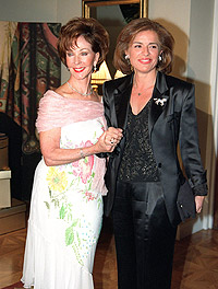 Mrs. Julia Argyros greets Ana Botella at the U.S. Ambassador's residence, 04/11/02